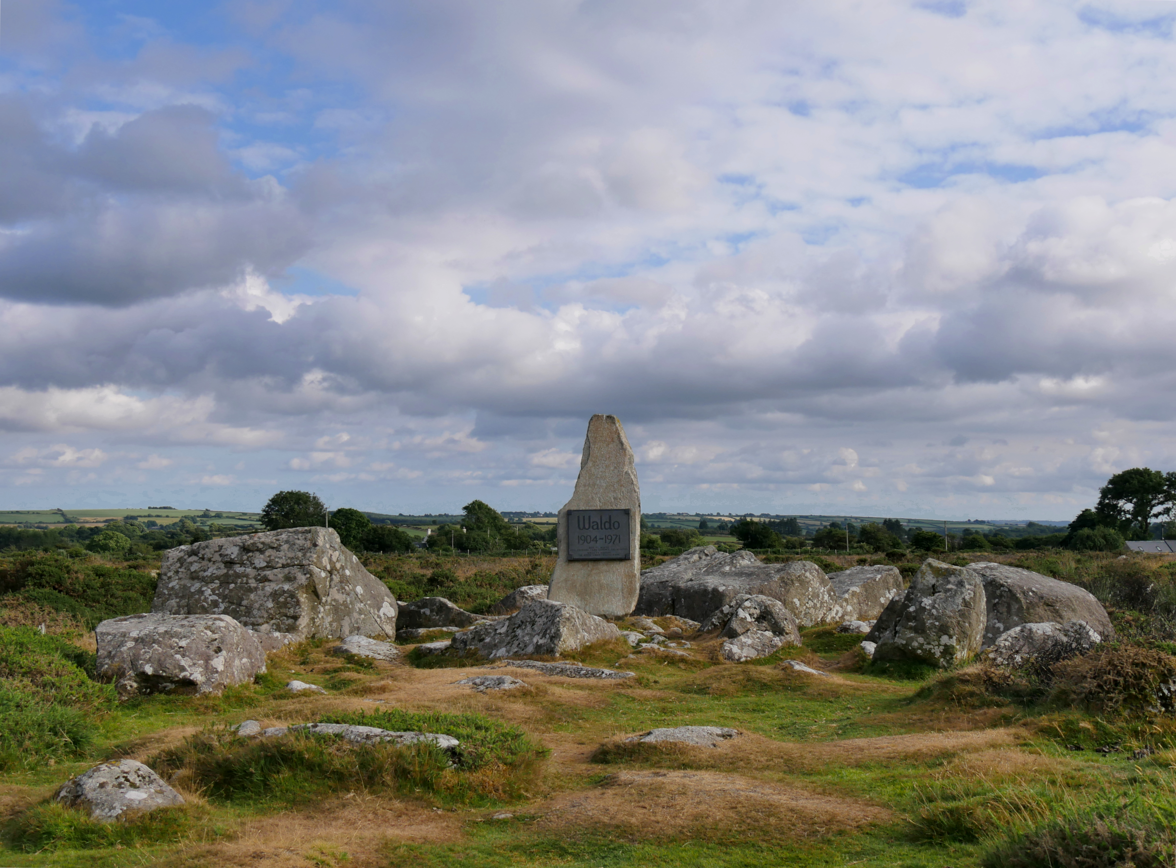 Waldo Williams memorial. The standing stones are memorial to Waldo Williams the Welsh poet.